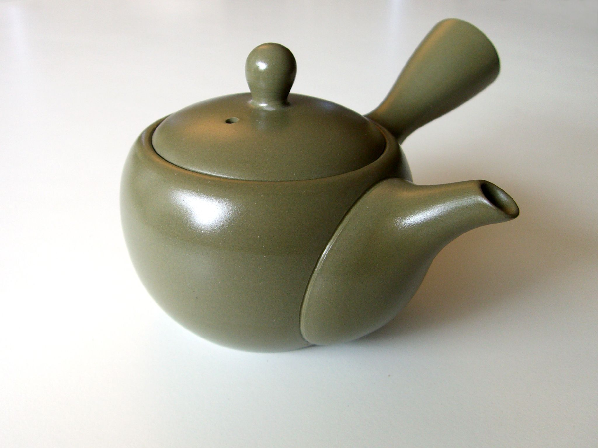 I bought this beautiful Japanese teapot from a tea shop in Toorak. Why can't I find a shop like that, dedicated to (mostly Chinese and Japanese tea) here?